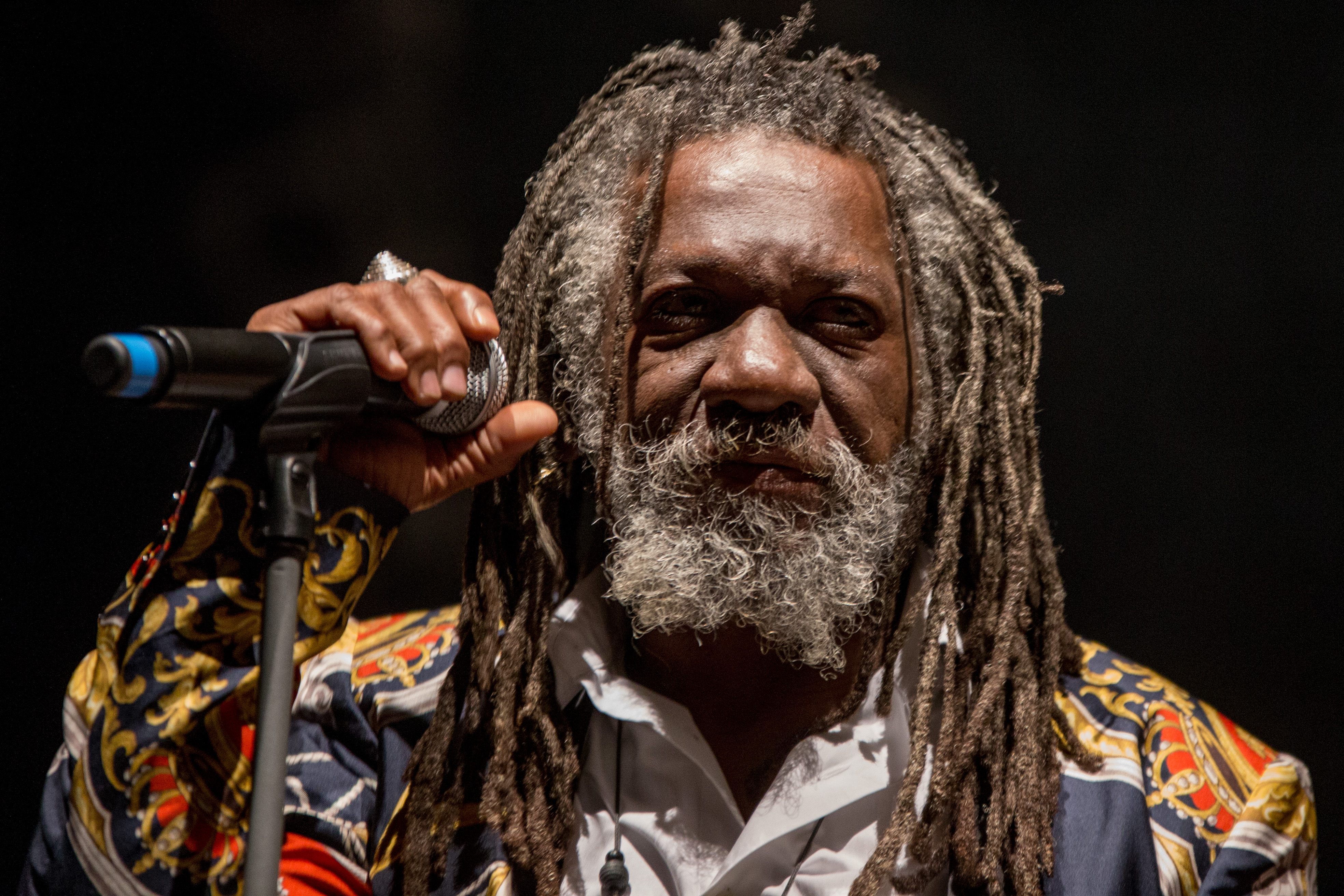 Winston McAnuff & Fixi TTF.Rudolstadt 2014 Festivalsommer This photo was created with the support of donations to Wikimedia Deutschland in the context of the CPB project "Festival Summer".